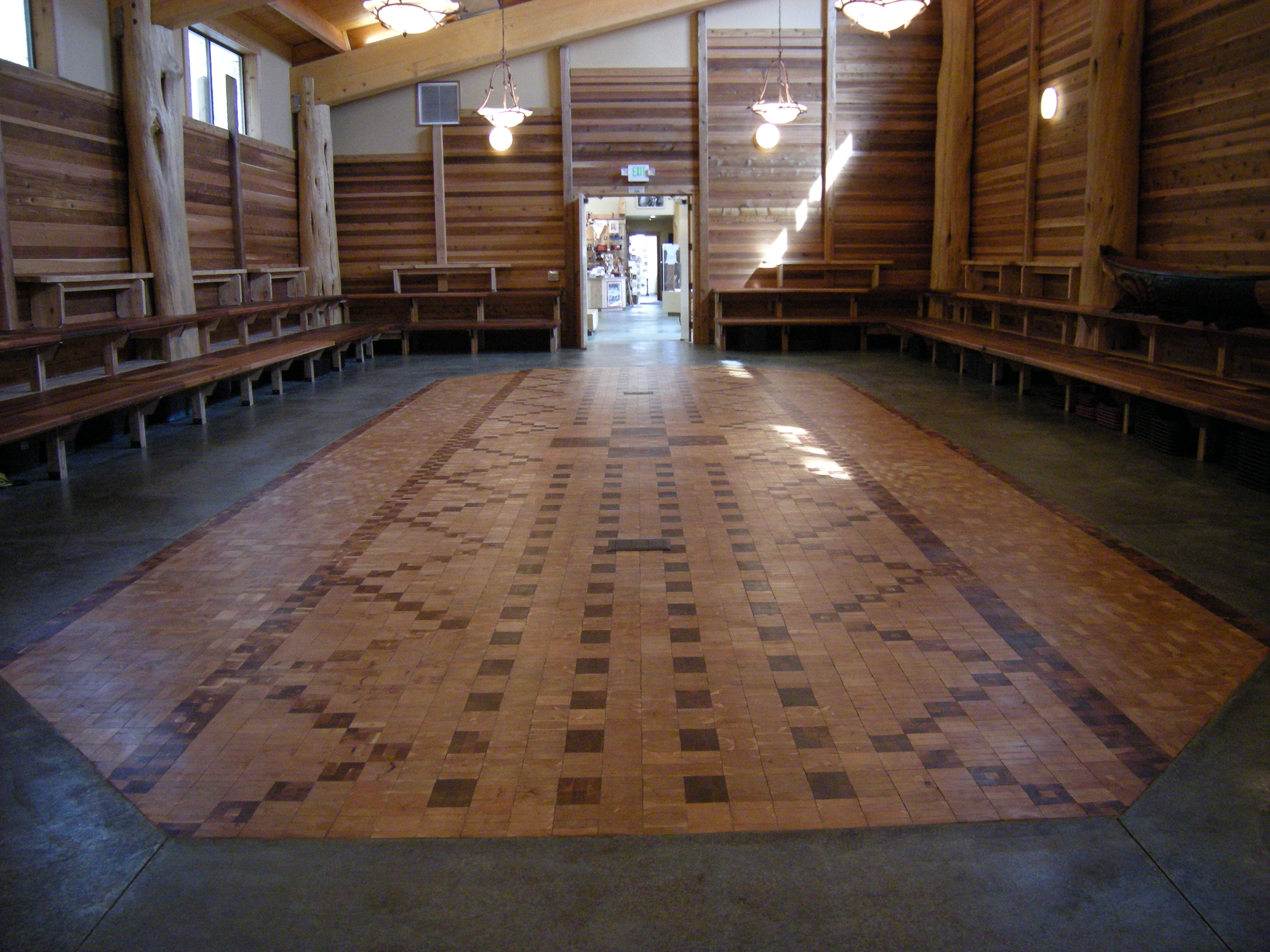 Interior, Duwamish Longhouse and Cultural Center, Seattle, Washington.